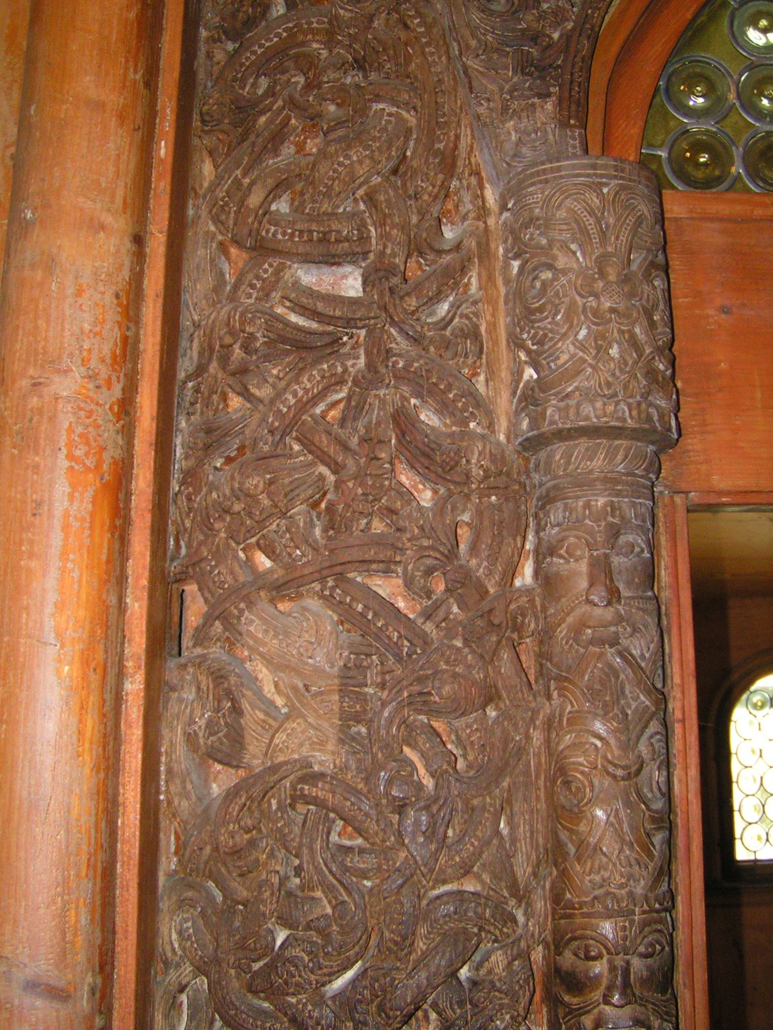 Church Wang in Karpacz, Poland